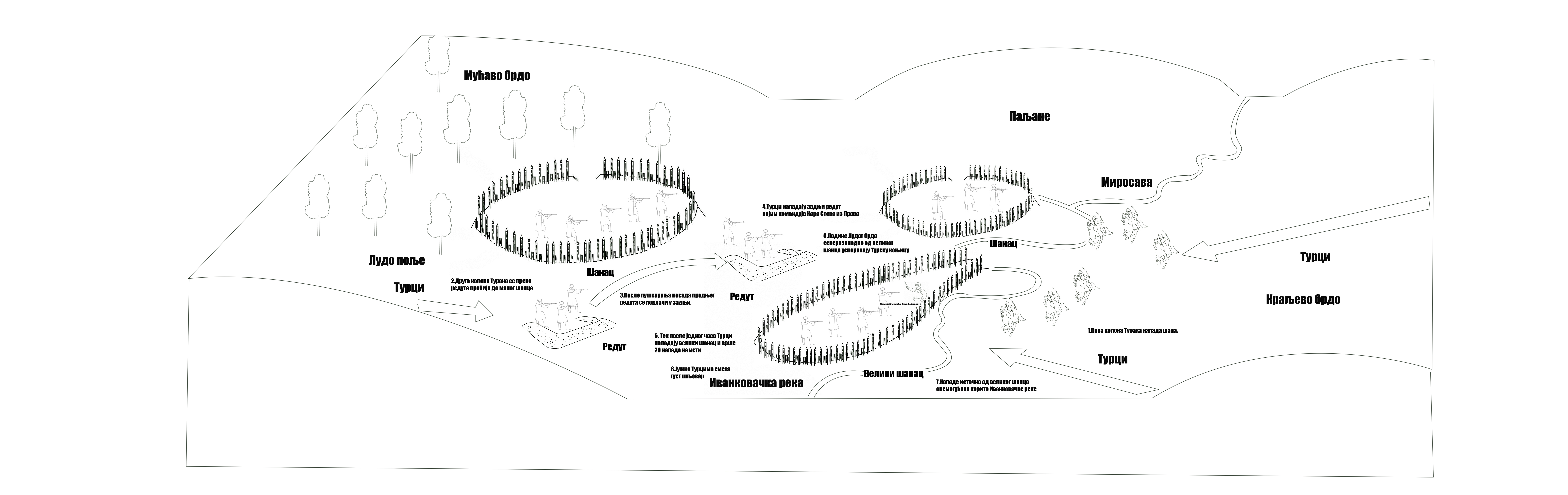 Diagram that explains battle of Ivankovac in August 1805